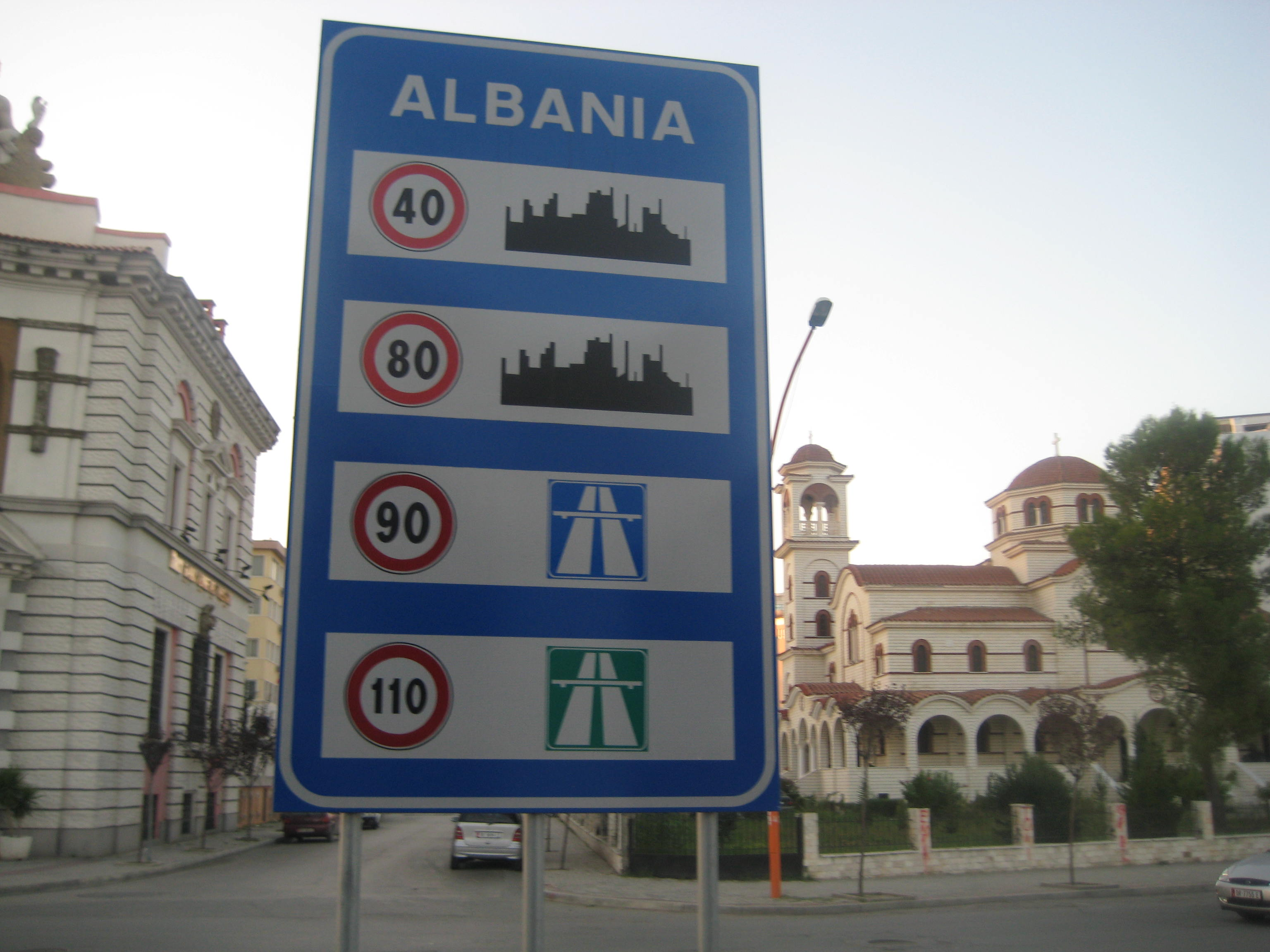 speed limits in Albania, in the harbour of Durrës